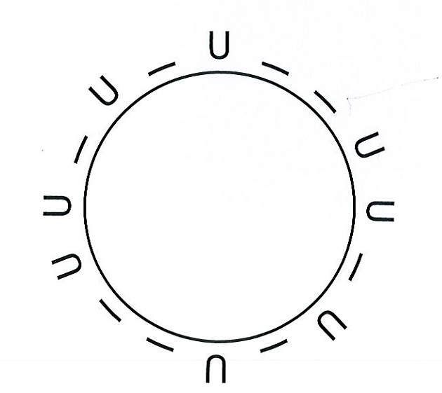 Dayereye Najafi (Persian Metrics)